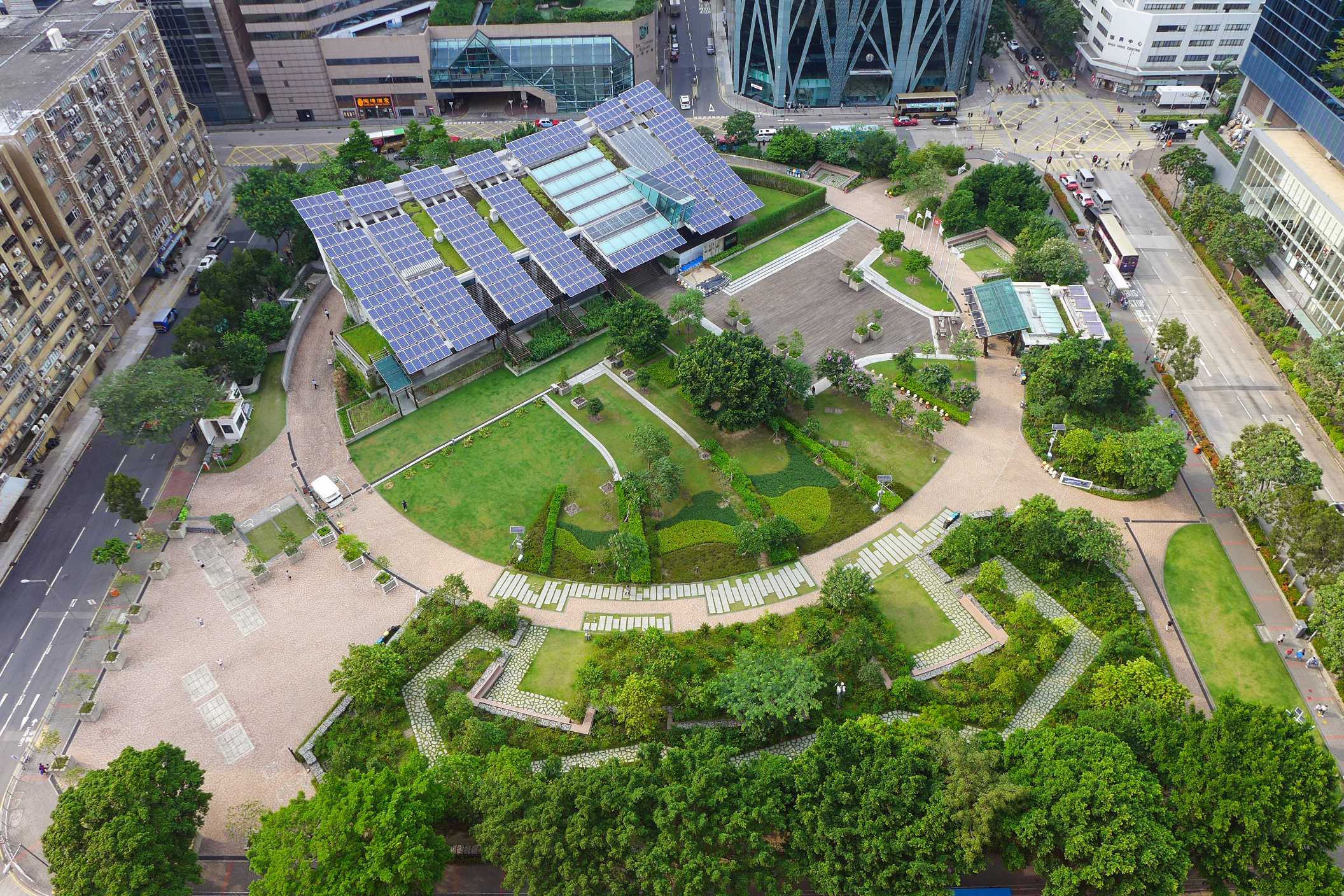 CIC Zero Carbon Building Overview